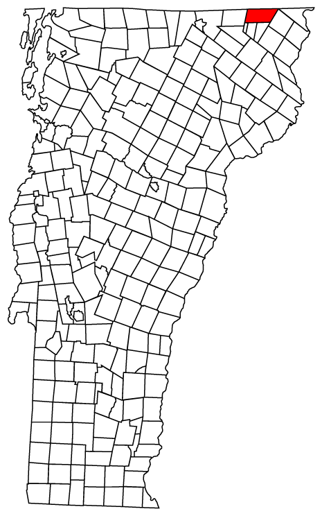 Description: Map of Vermont towns with Norton highlighted Source: Map created by Jared C. Benedict on 26 March 2004. Copyright: © Jared C. Benedict.